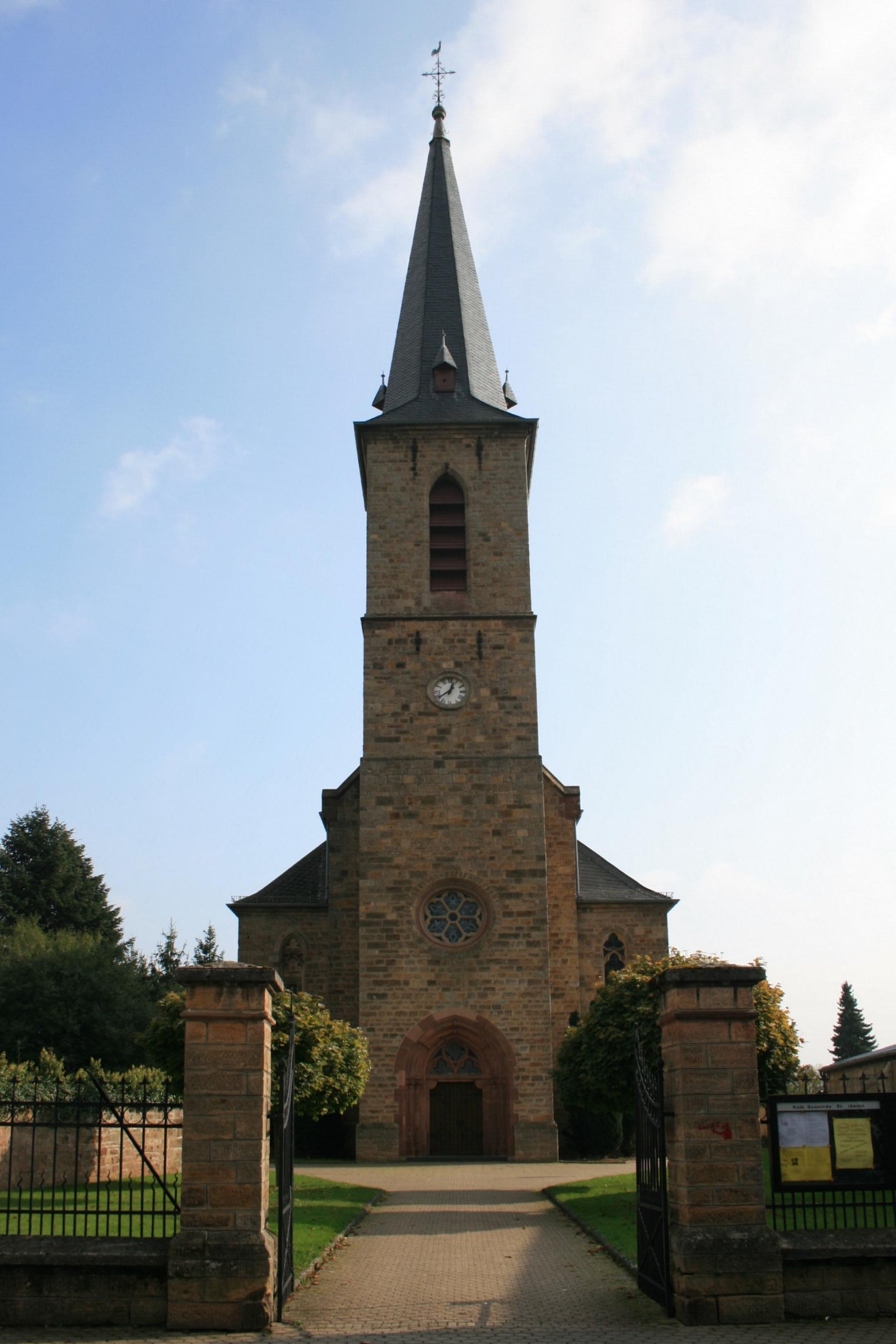 Cultural heritage monument No. 61 in Kreuzau